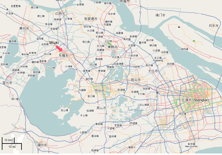 Map showing the city Wuxi (Arrowed ) in Jiangsu province, People's Republic of China and its relation to the City of Shanghai , The Yangtse River and Lake Taihu.